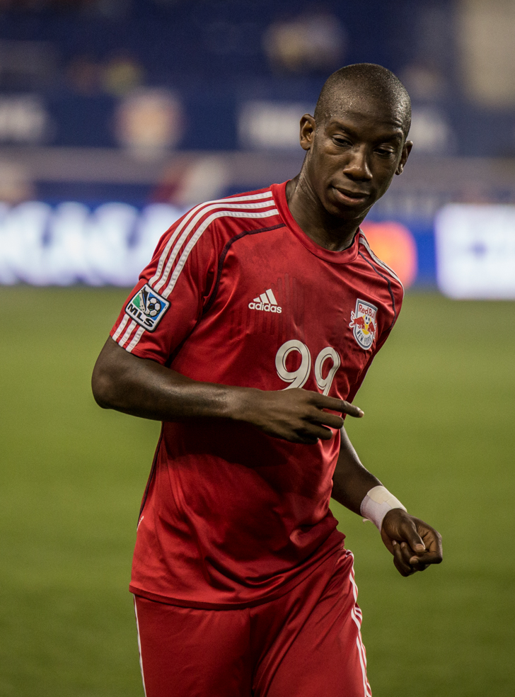 Bradley Wright-Phillips warming-up before a match for New York Red Bulls.